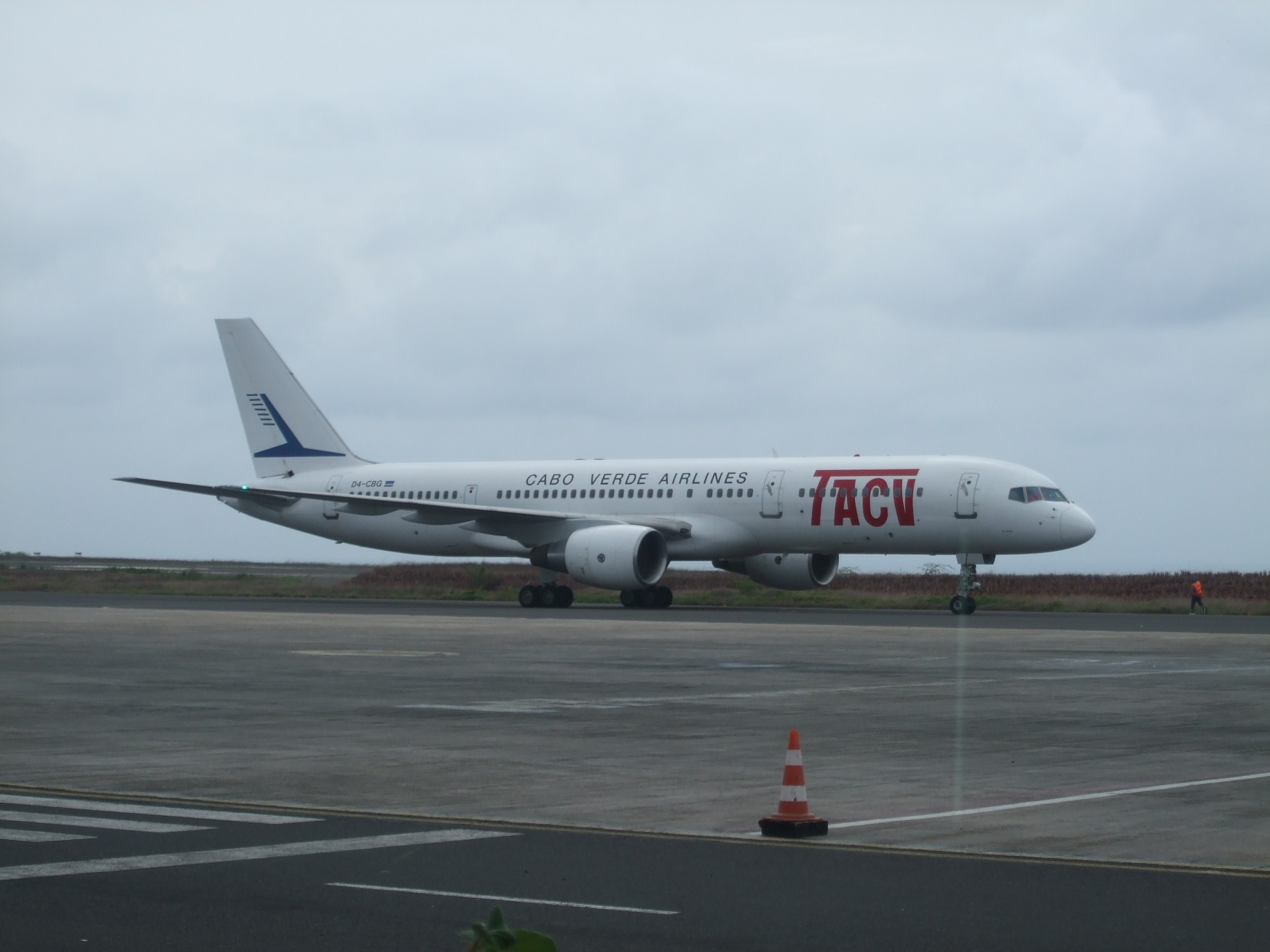 TACV Boeing 757 (D4-CBG) at Praia Airport, Santiago Island, Cape Verde just before loading passengers for a 4 hour flight to Lisbon.